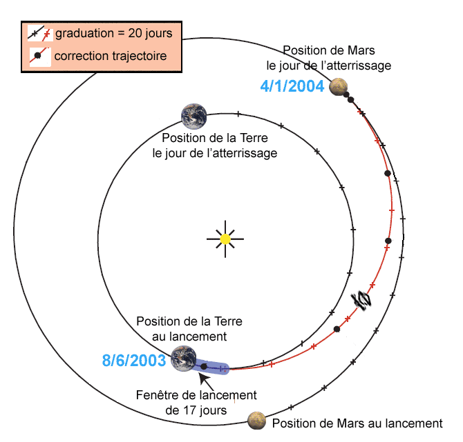 Mars Rover Spirit : Earth Mars Trajectory (french)